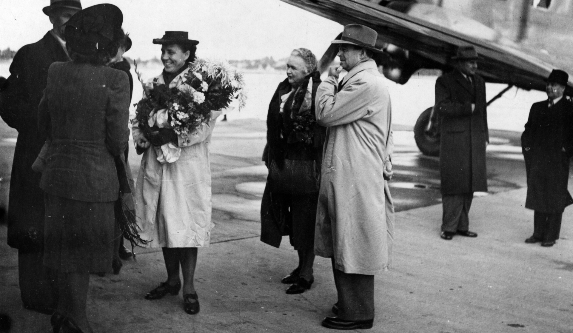 Photograph of the Finnish politicians Hertta Kuusinen, Hella Wuolijoki and Yrjö Leino at an airport.